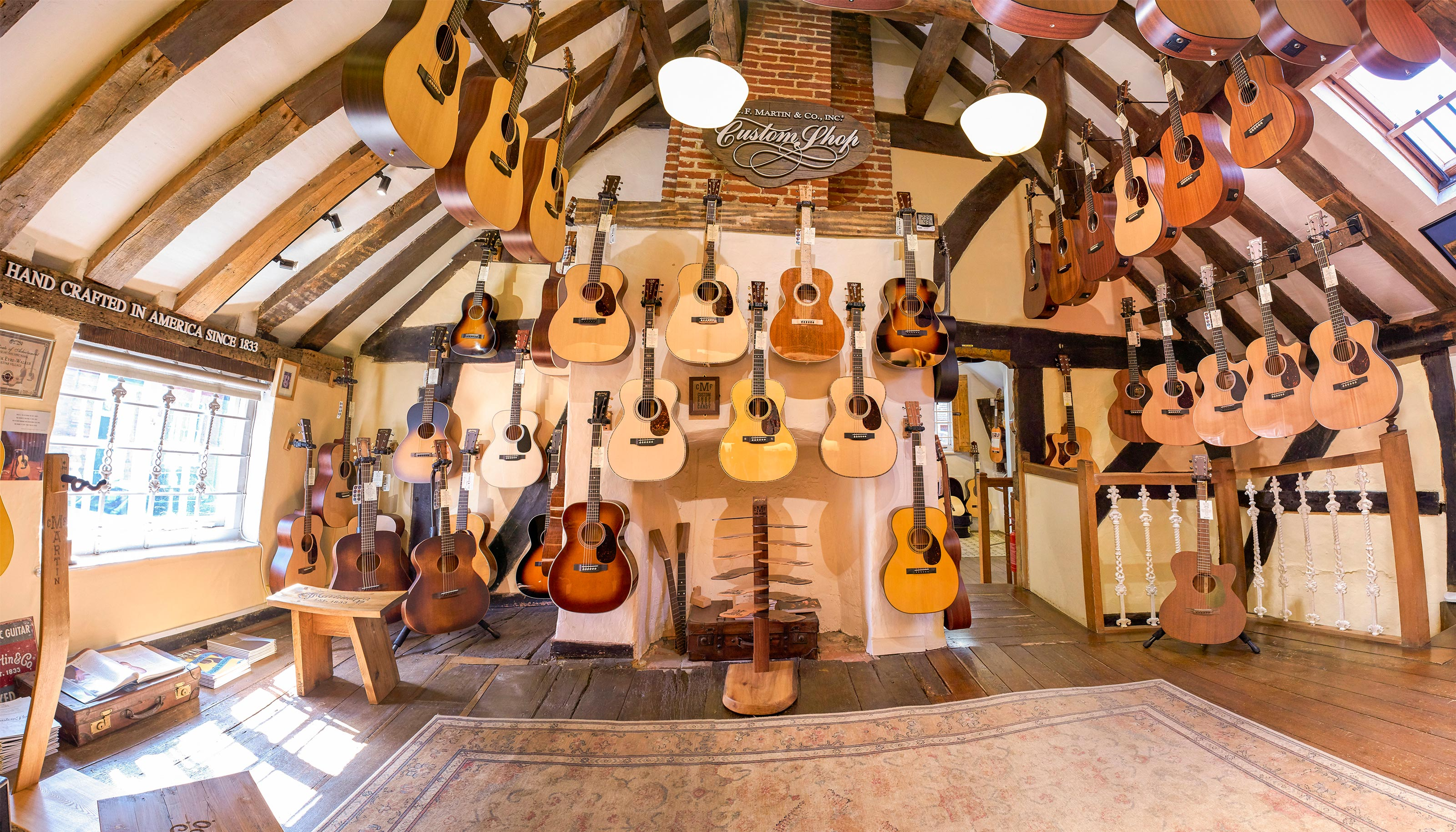 Guitar Village, 80-82 West Street, Farnham, Surrey